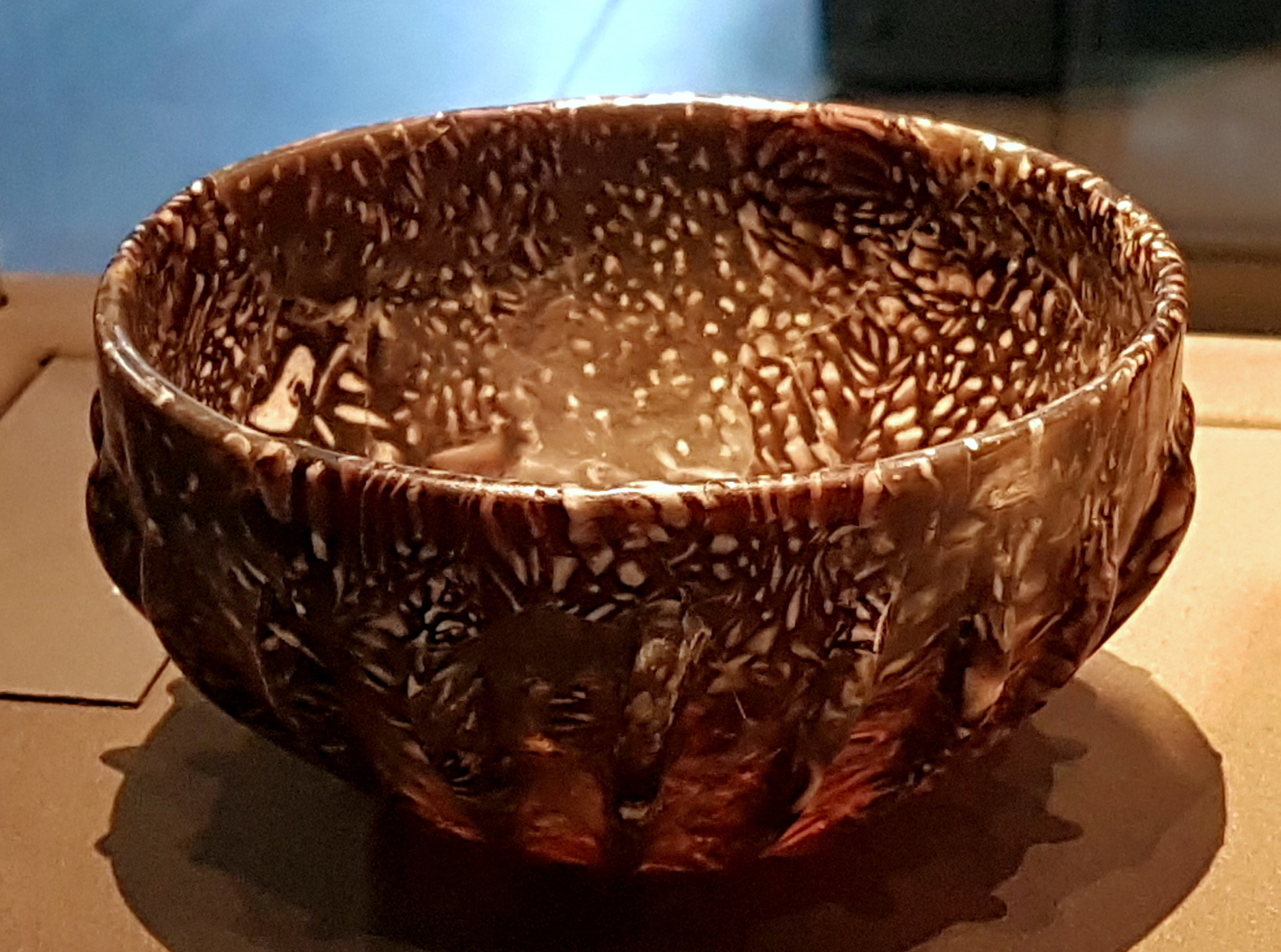 So-called "Cup of Saint Servatius", a 1st-century milifiore cup, part of the Servatiana in the Treasury of the Basilica of Saint Servatius in Maastricht, the Netherlands.